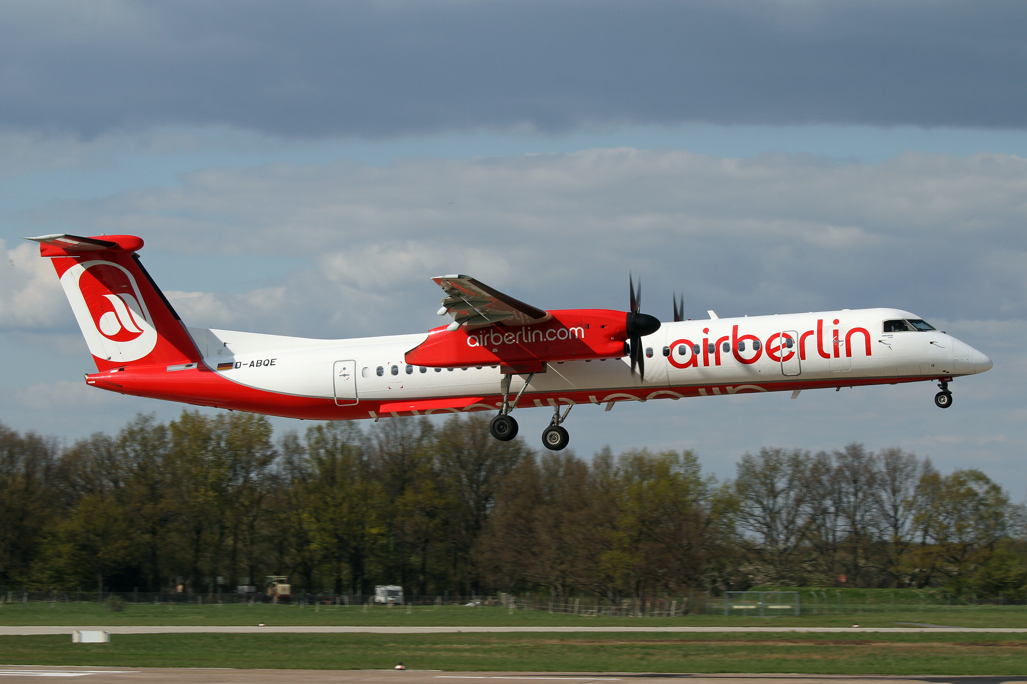 Dash 8-Q400 of Air Berlin at Hanover/Langenhagen International Airport